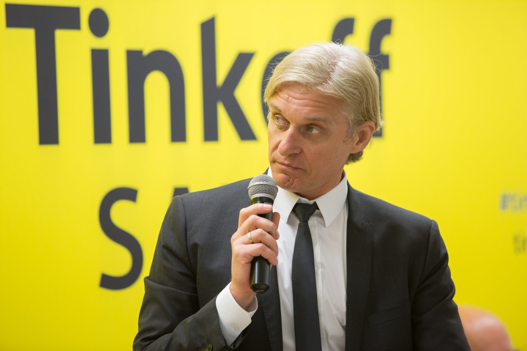 Oleg Tinkov, Russian businessman